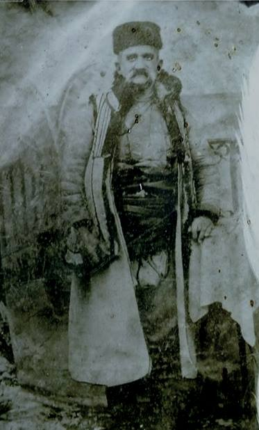 Kacho Stankov (1842-1904)